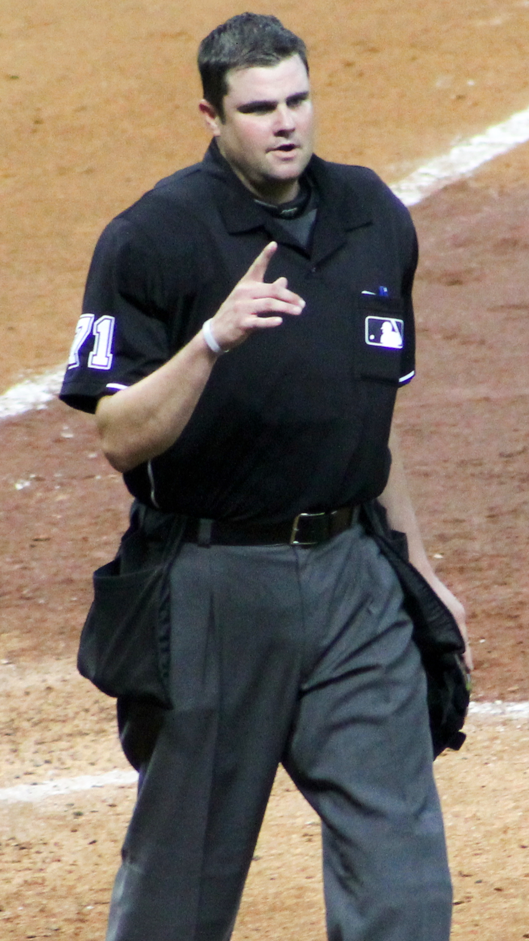 Baseball umpire Jordan Baker signals to players during an August 2014 game in Houston.